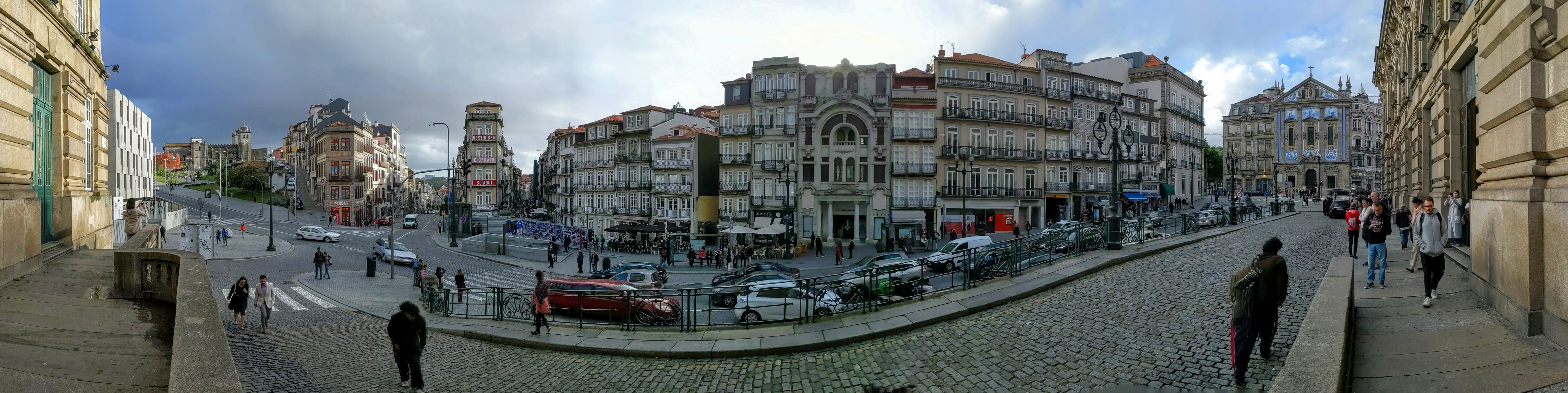 Panoramic view from the front of Porto Sao Bento station, showing many interesting ways one can go